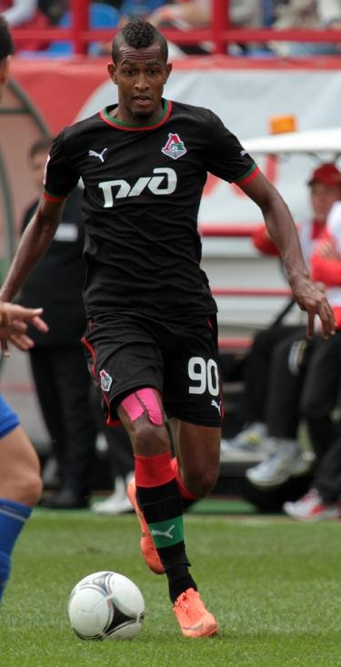 Maicon with FC Lokomotiv Moscow in 2012.